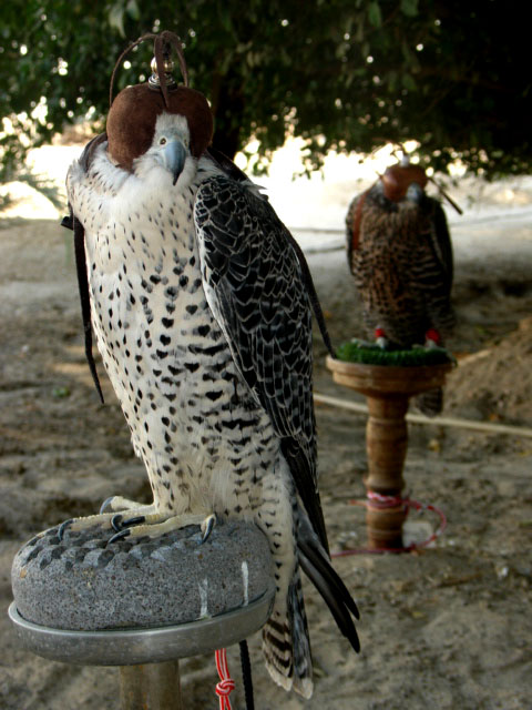 Domestic falcons used for falconry at rest. Adult (foreground) and juvenile falcons (Falco sp.). Photo taken in Dubai, United Arab Emirates.